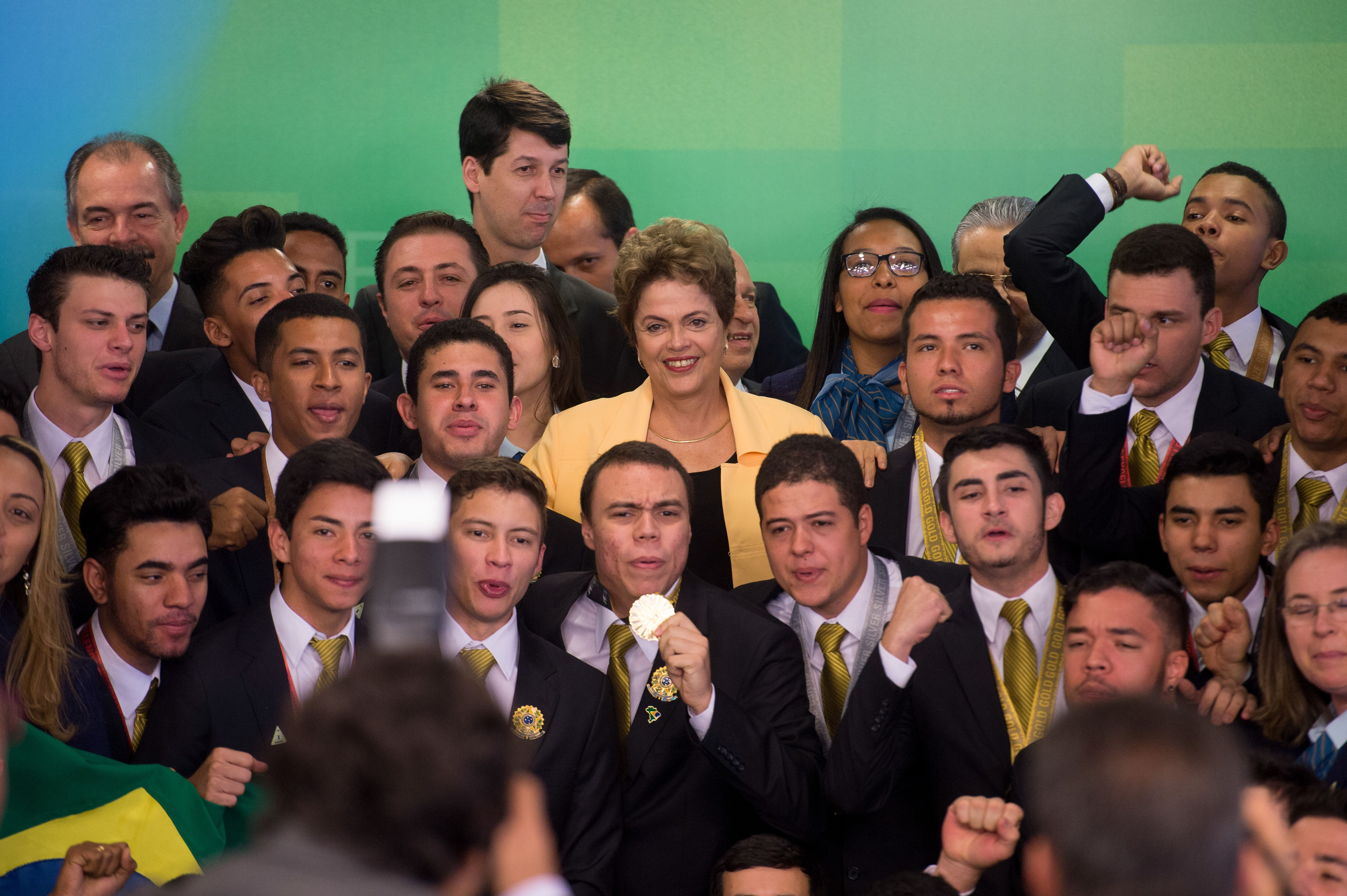 Photo by Marcelo Camargo/Agência Brasil CCBY3.0